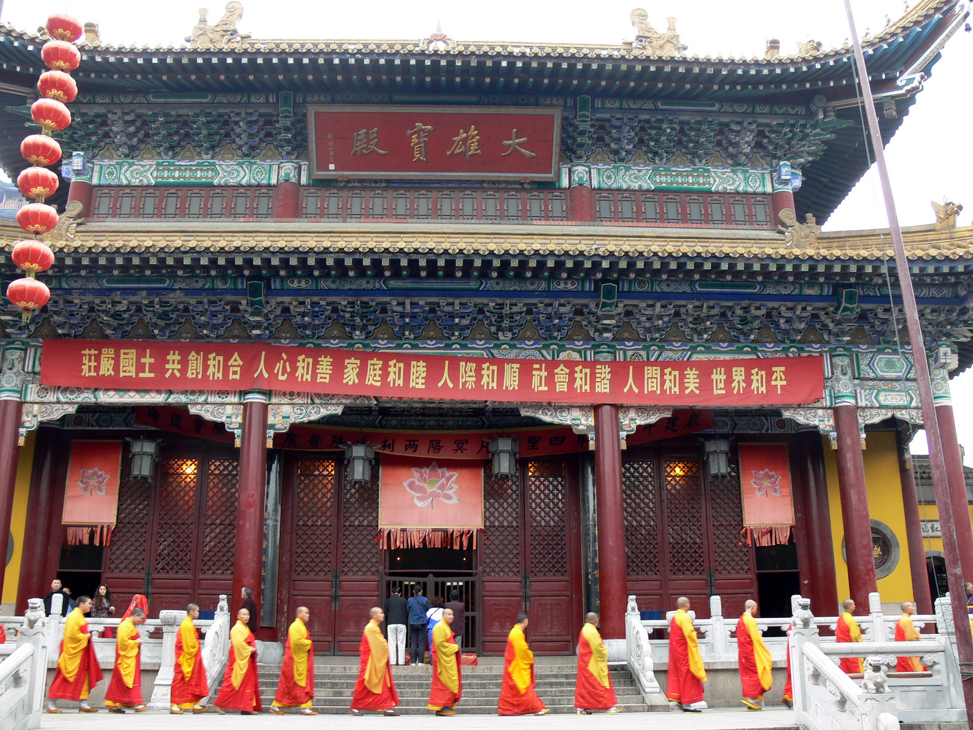 Hall of Sakyamuni of Zhenjiang Jinshan Temple